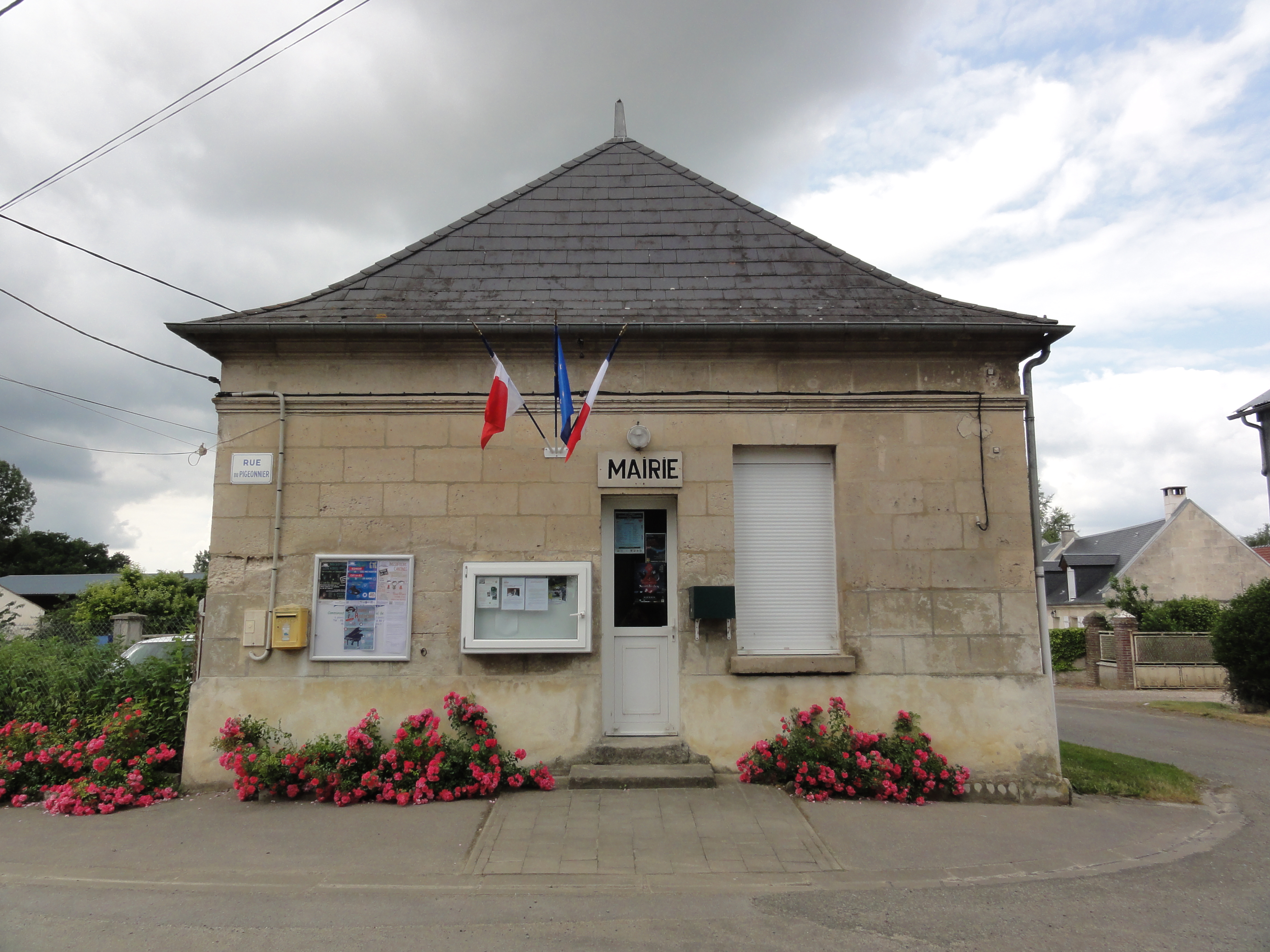 Bourguignon-sous-Coucy (Aisne) mairie